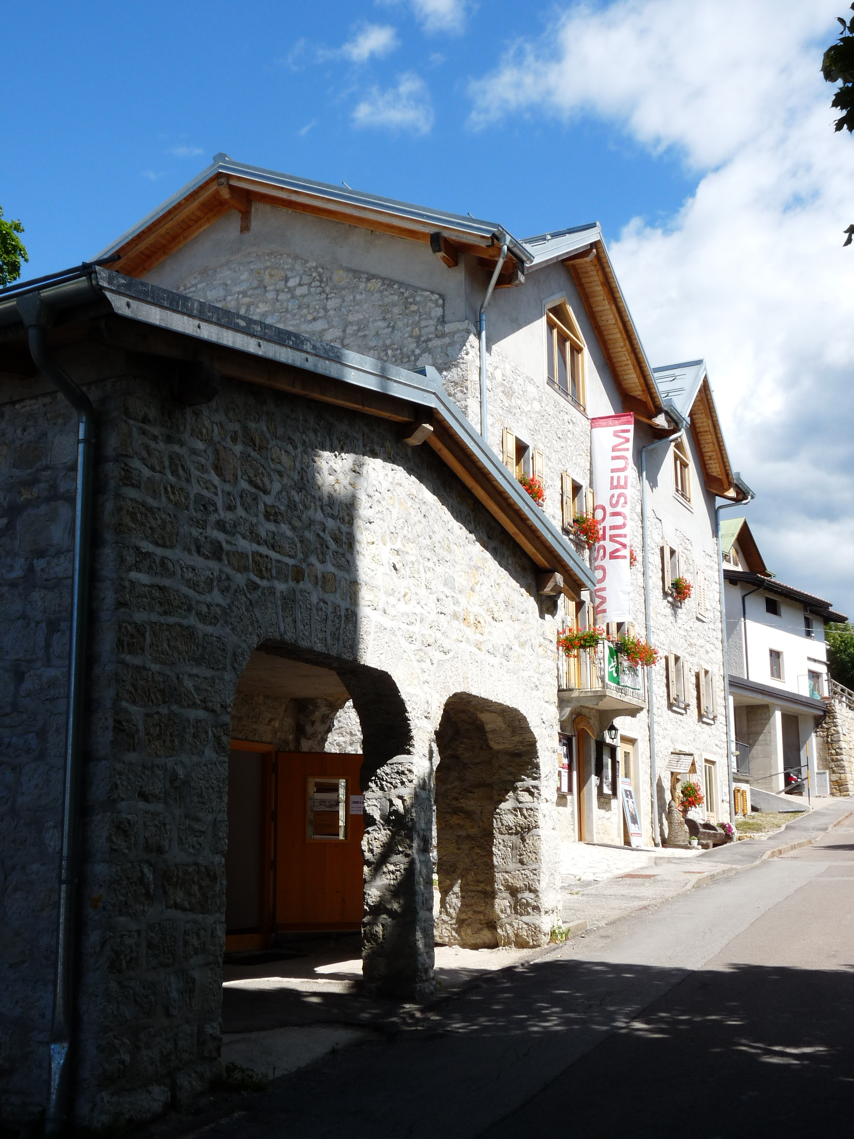 Luserna (Italy): Centro Documentazione Luserna